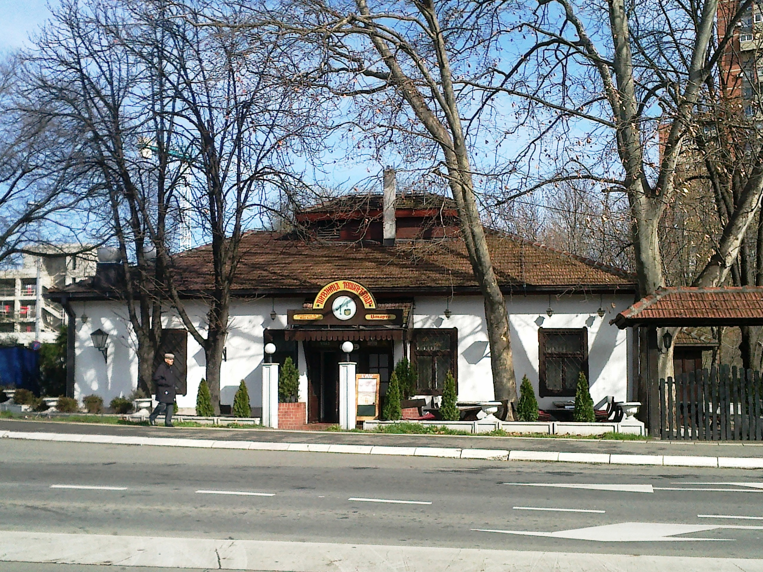 "Tosin bunar", Block 4, New Belgrade